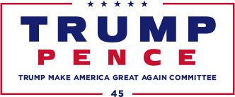 Donald Trump campaign committee logo from campaign website's online store